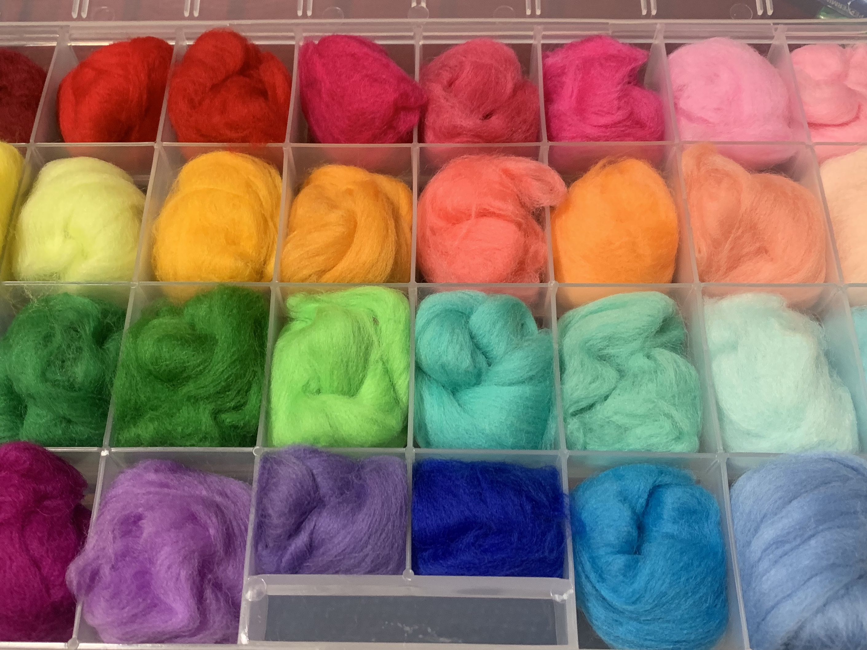 wool roving